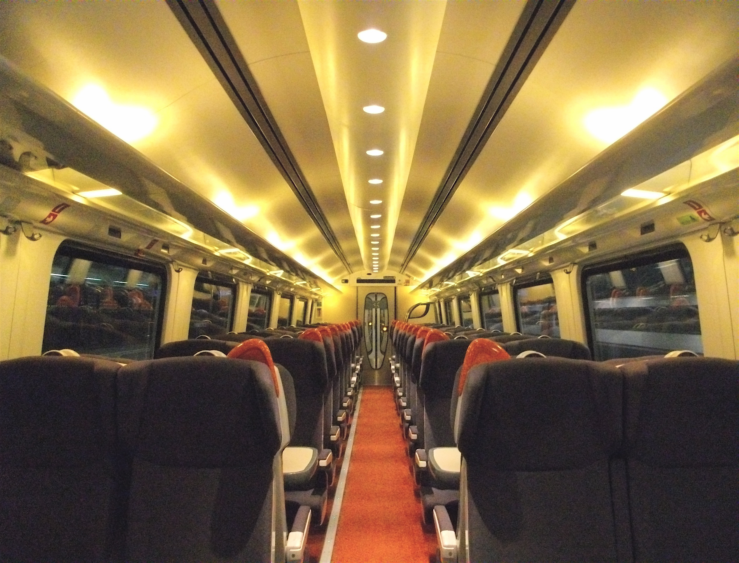 The interior of Standard Class aboard an MSO vehicle in a Bombardier Class 222/0 Meridian.